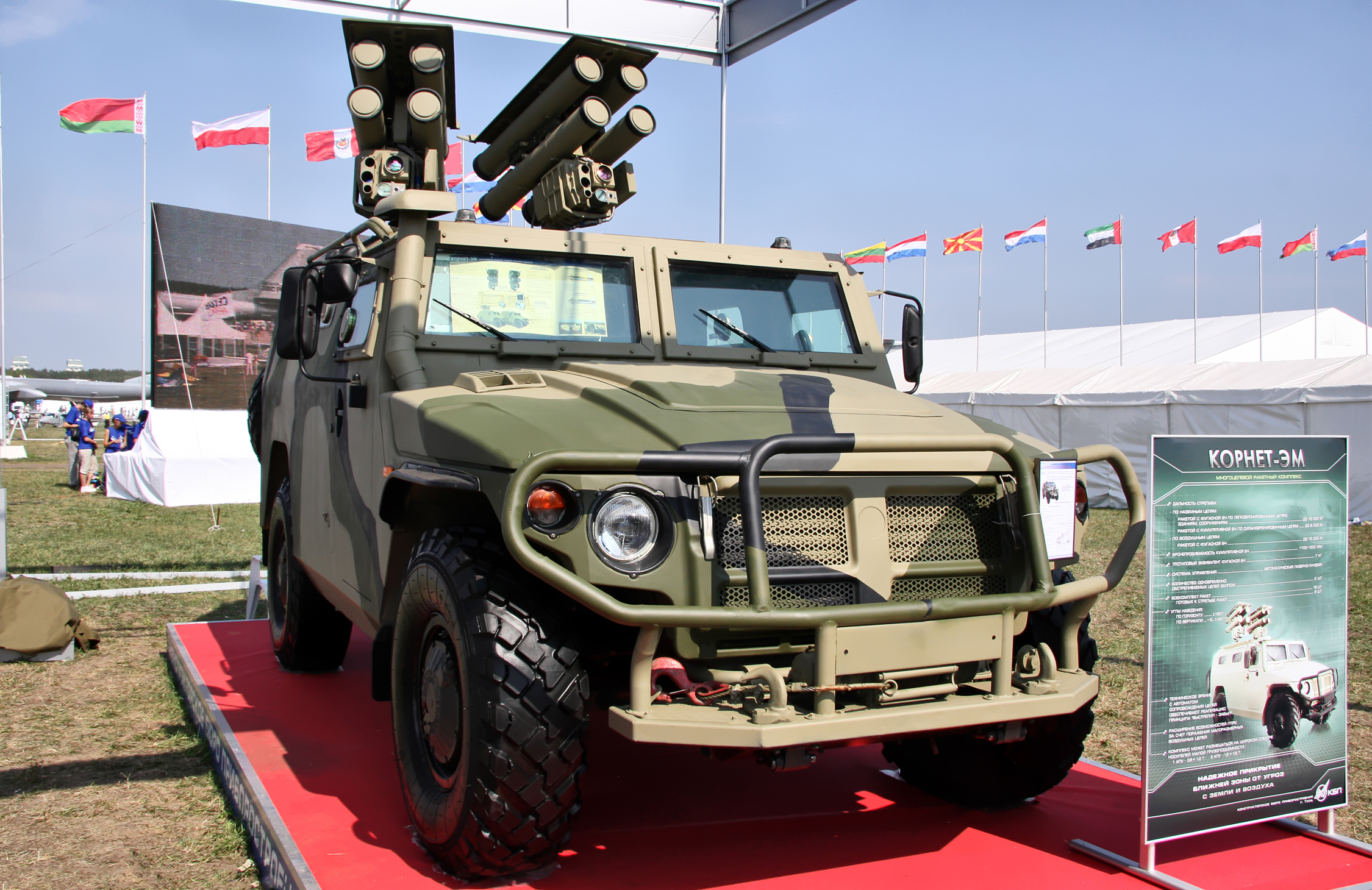 Kornet-EM at MAKS-2011